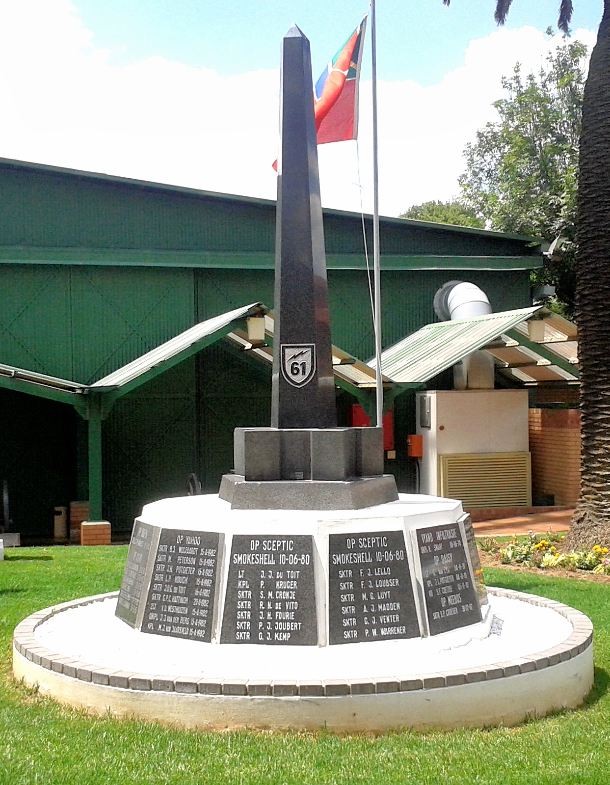 61 Mechanised Battalion Group Memorial, originally erected at Omuthiya in 1984, re-erected at the Army Battle School at Lohathla in 1992, re-erected at the South African National Museum of Military History in Saxonwold, Johannesburg in 2010